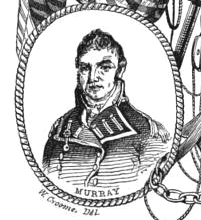 Portrait of Alexander Murray, commodore, US Navy. W. Croome, del.; engraving by Abel Bowen